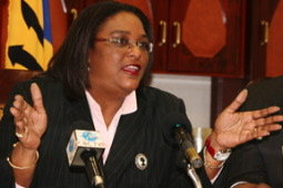 The Honourable Mia Mottley from Barbados